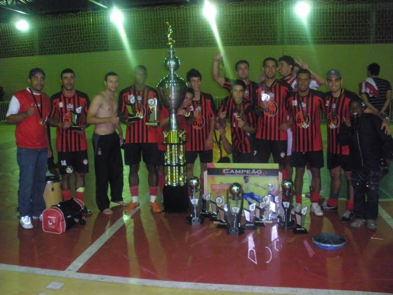 Vilense, Regional Champion in the city of Serra da Saudade 2010